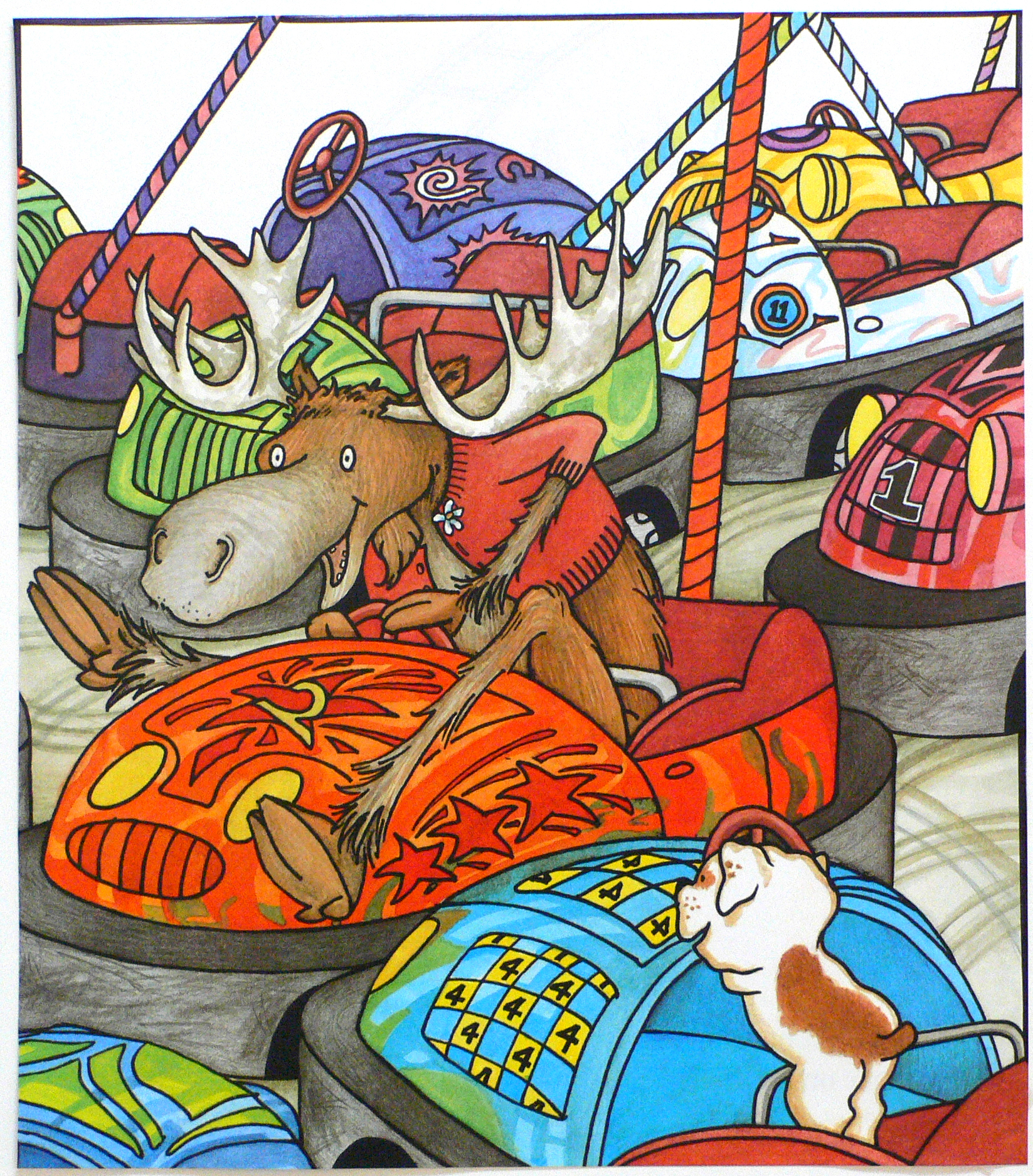 If you Give a Pig a Party (7) illustrated by Felicia Bond (illustrator, children's book illustrator)